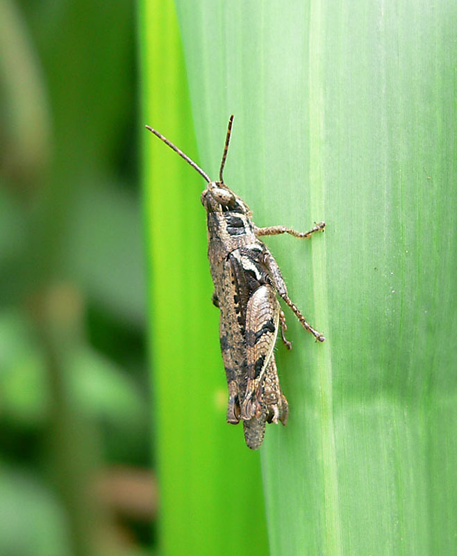 Male of Catantops sylvestris grasshopper photographed on 10/06/05 by Christiaan Kooyman in the rain forest near Awae in Cameroon.